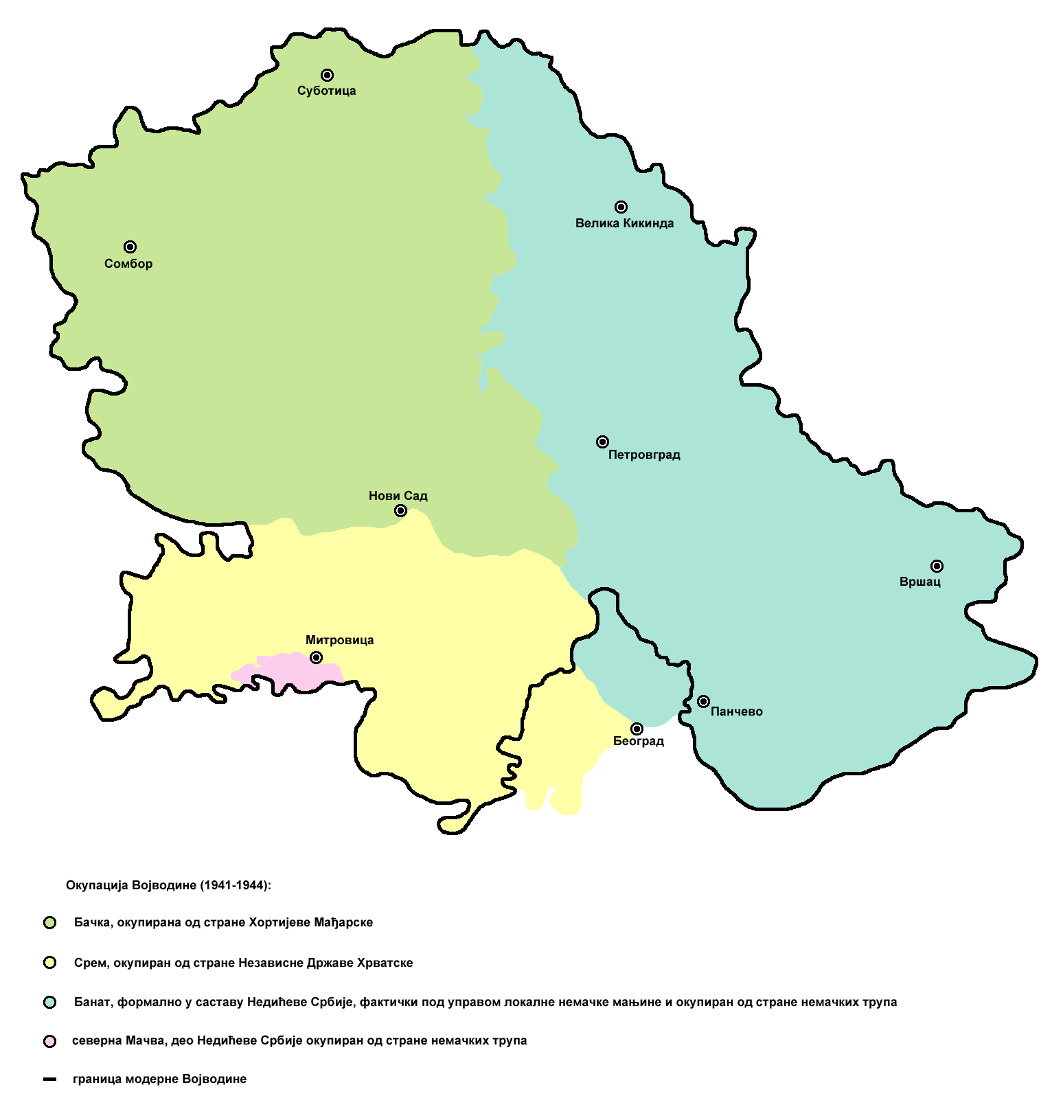 historic map of Vojvodina during Axis occupation (self made) Category:Maps of the history of Vojvodina - Serbian language version Serbian: историјска мапа Војводине за време окупације од стране Сила осовине - верзија на српском језику